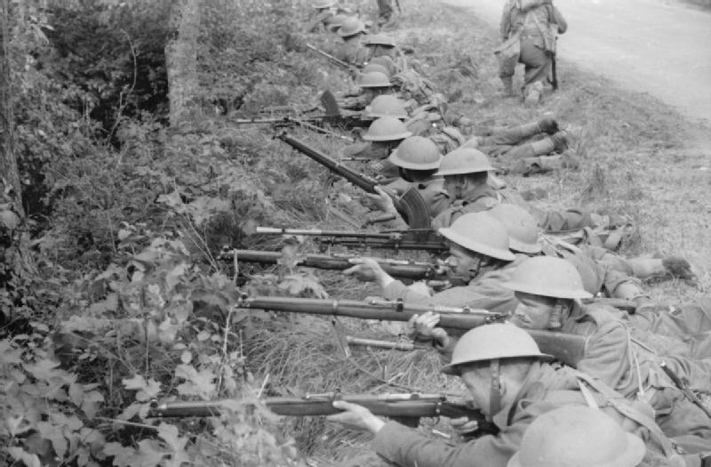 The British Expeditionary Force (bef) in France 1939-1940 4th Battalion Border Regiment on the Somme Front, May 1940: Soldiers of the 4th Battalion, Border Regiment take up defensive positions by the roadside.